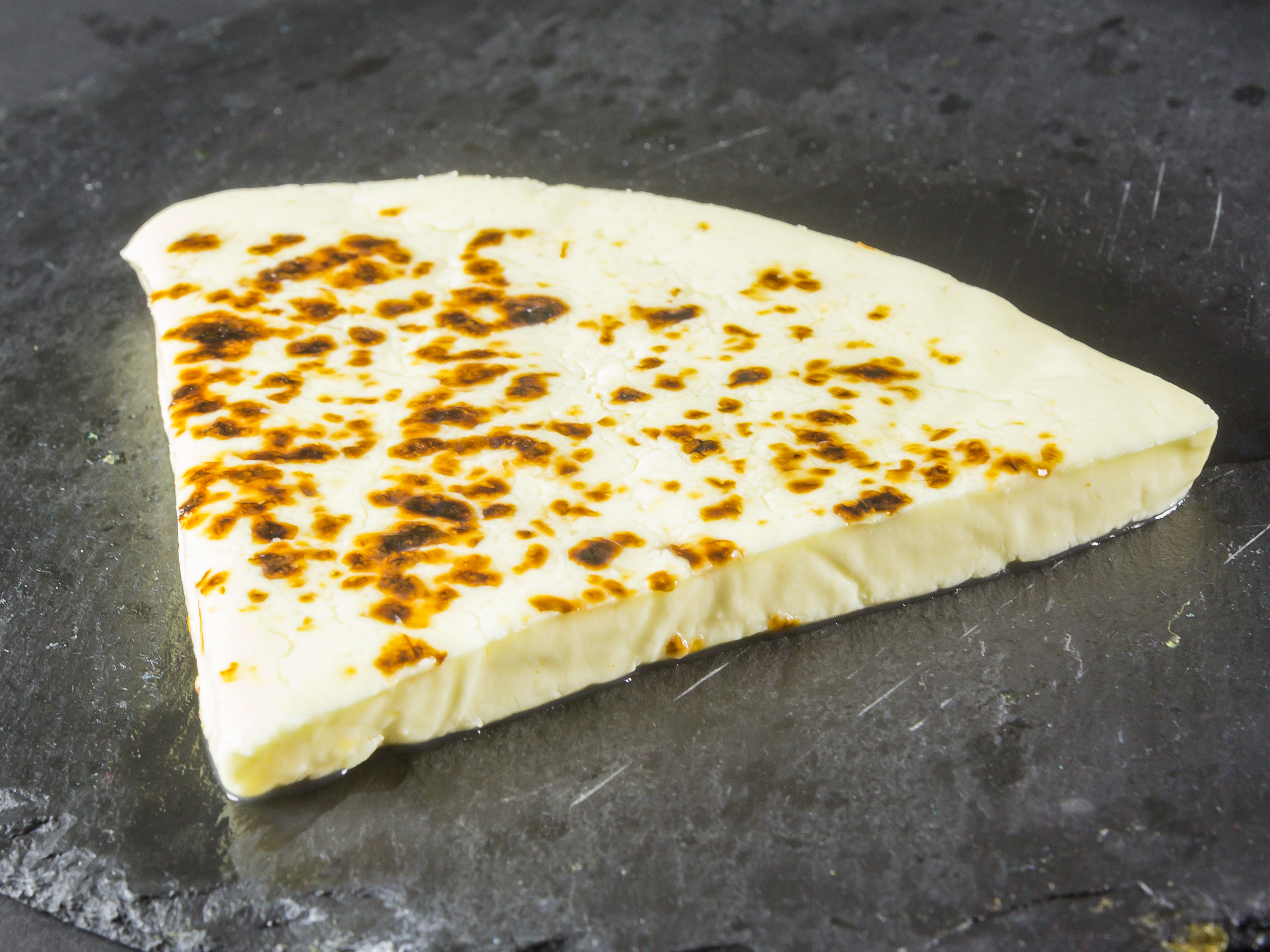 A slice of Leipäjuusto